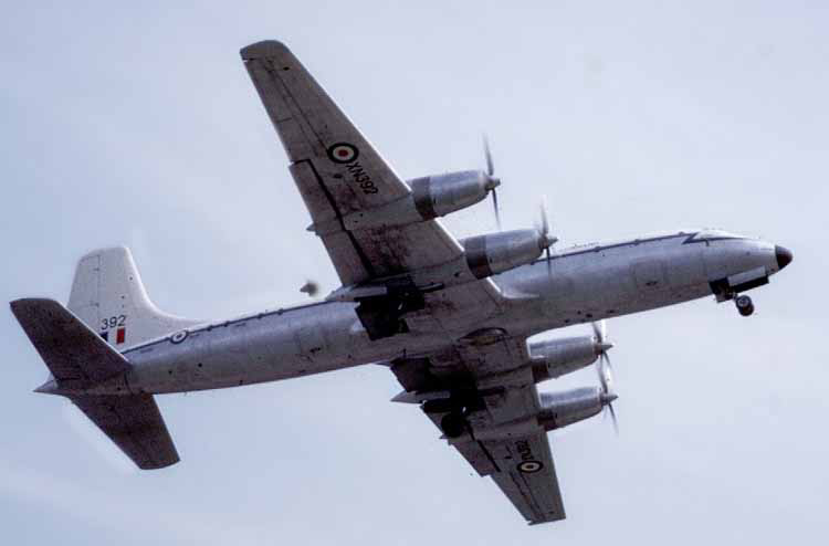 Royal Air Force Bristol Britannia in plan view. Serial XN392, scrapped in May 1976.